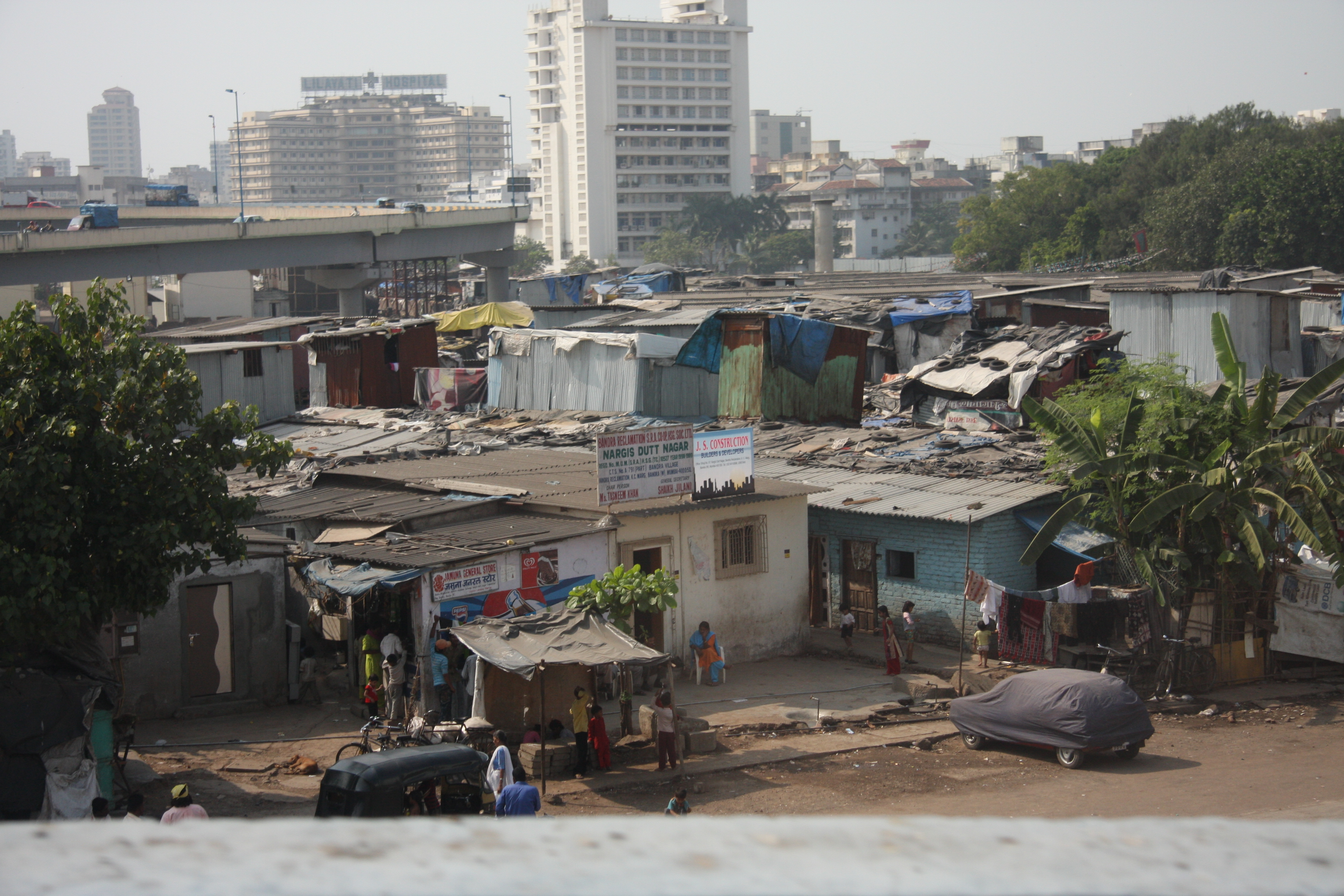 by u07ch Uploaded by user:nikkul